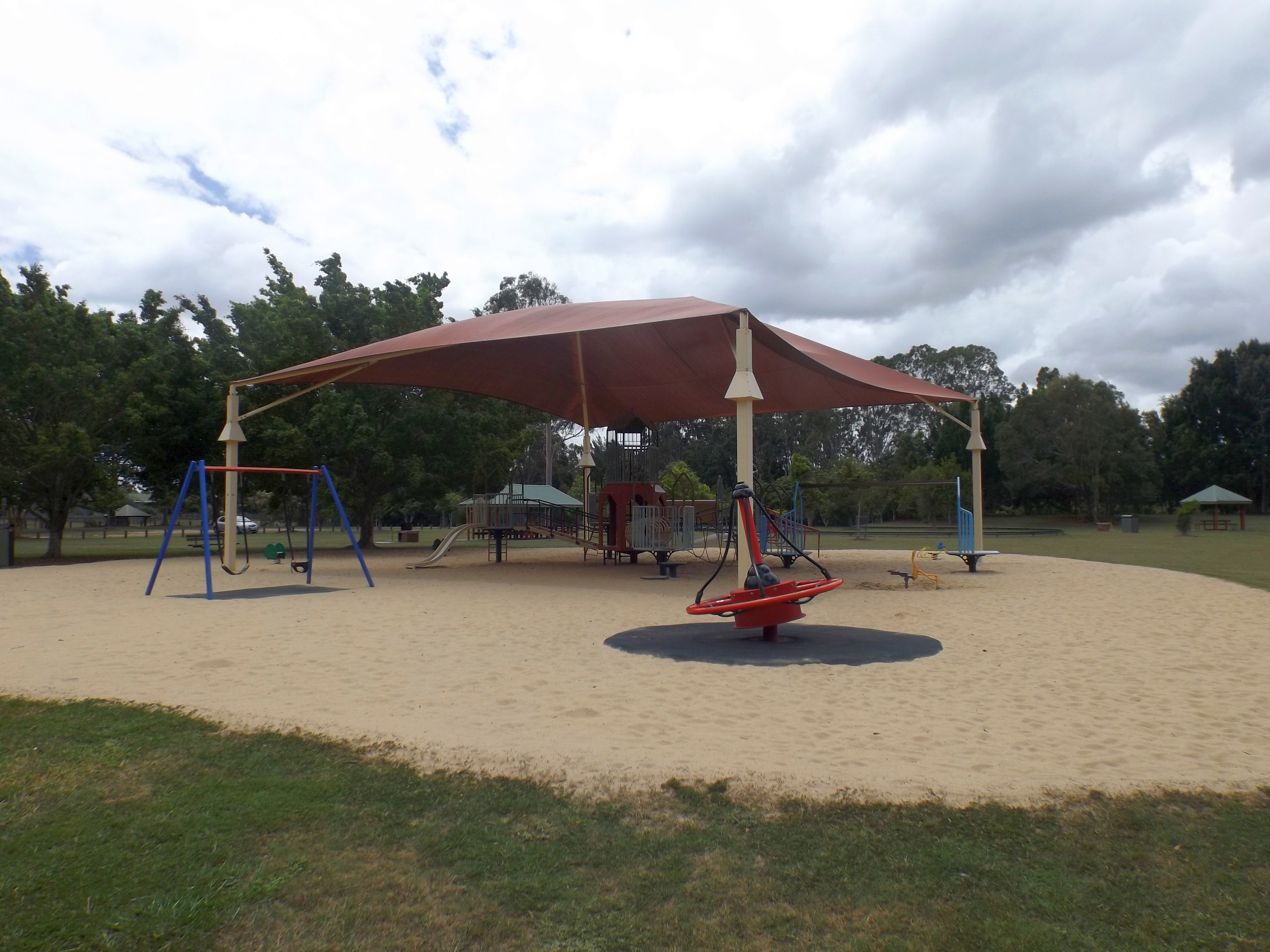 Photo of playground at Alexander Clark Park at Loganholme, City of Logan, Queensland, Australia.